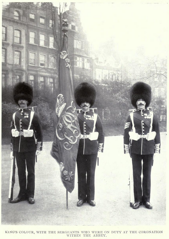 A colour party of the Grenadier Guards with the King's Colour, following the coronation of King George V in June 1911.